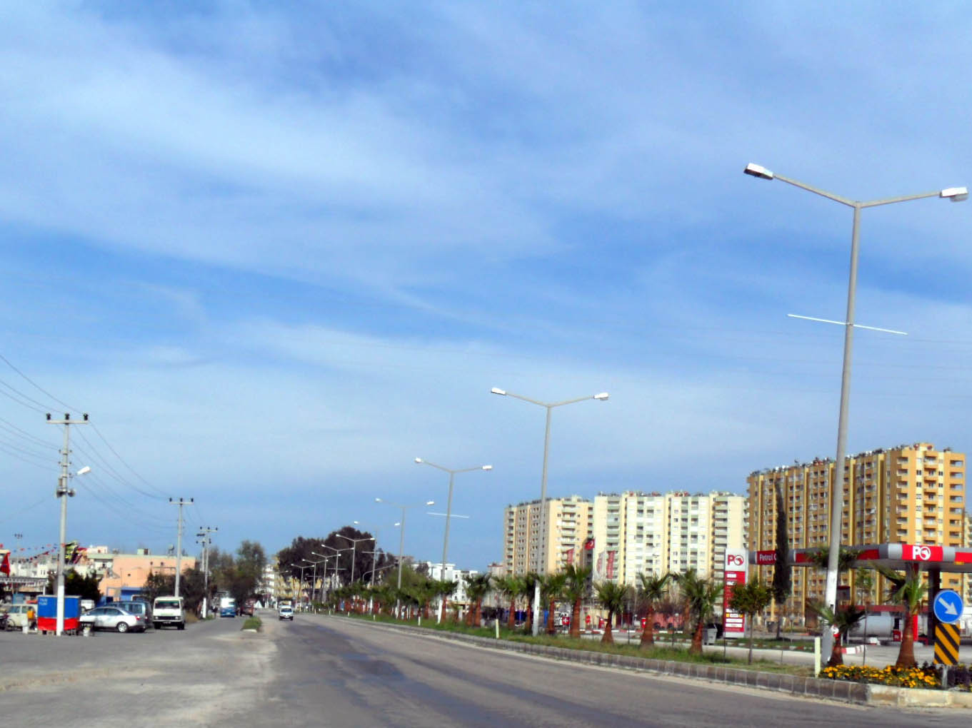 Susanoğlu